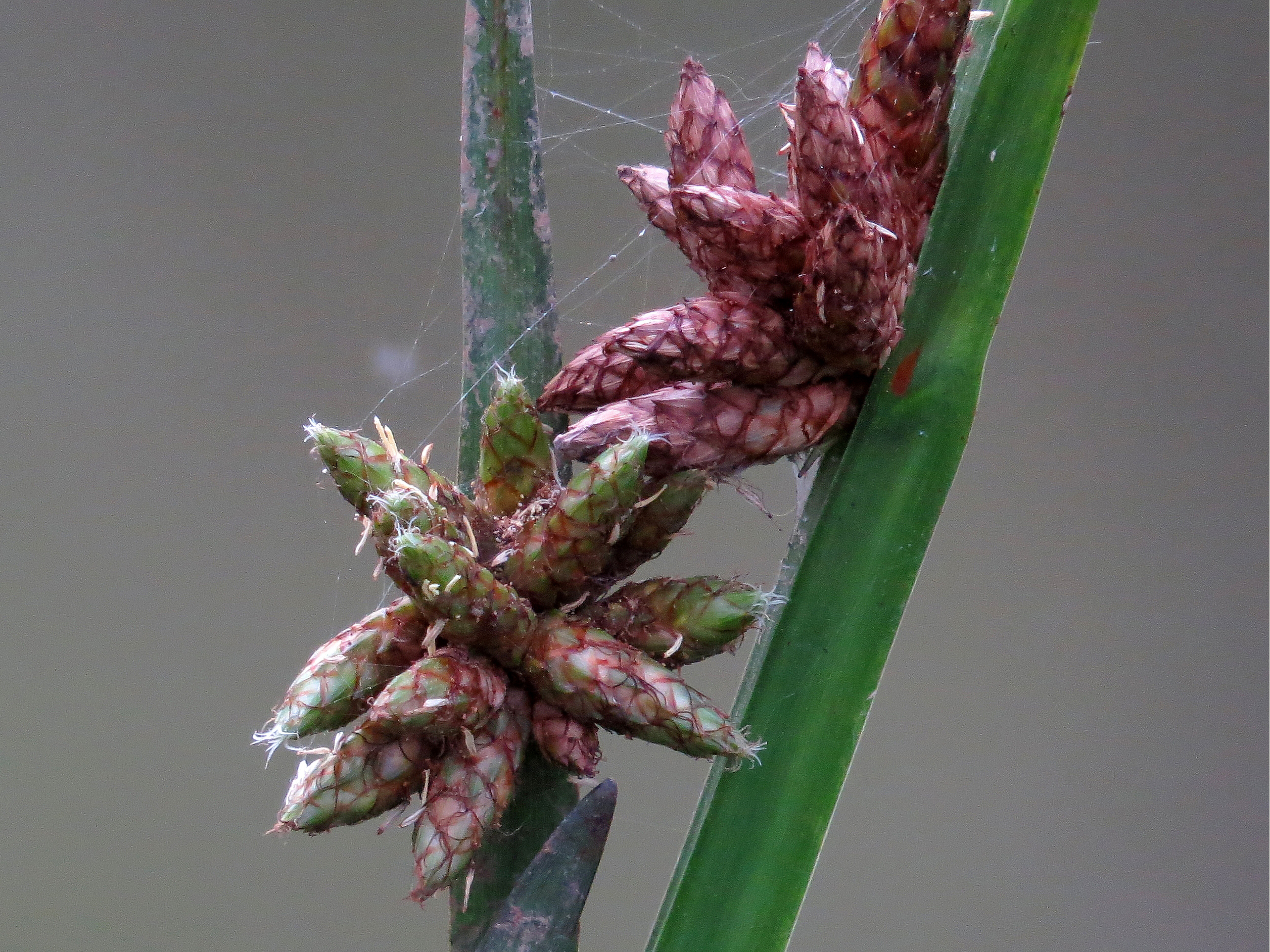 Schoenoplectus mucronatus (bog bulrush) inflorescence, Turners Flat, NSW, Australia